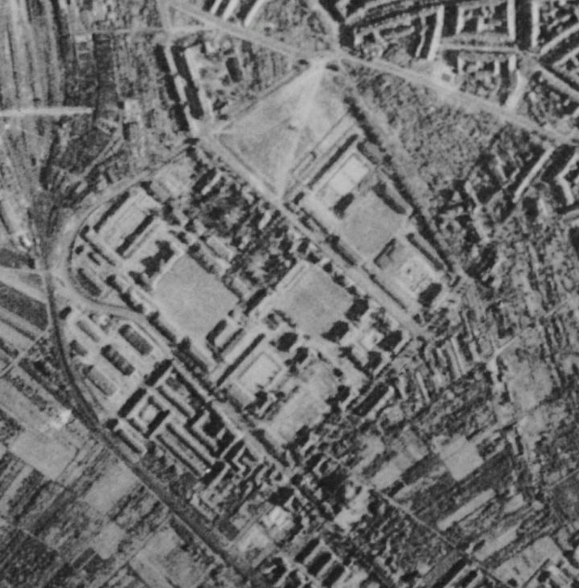 1943 military installations of the Ochamps-Kaserne in Wiesbaden